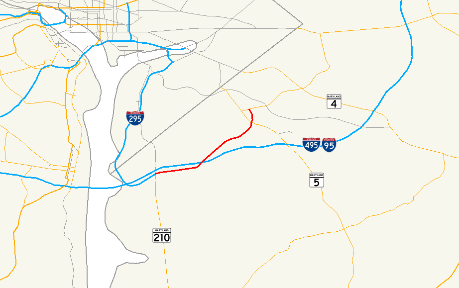 Map of Maryland Route 414